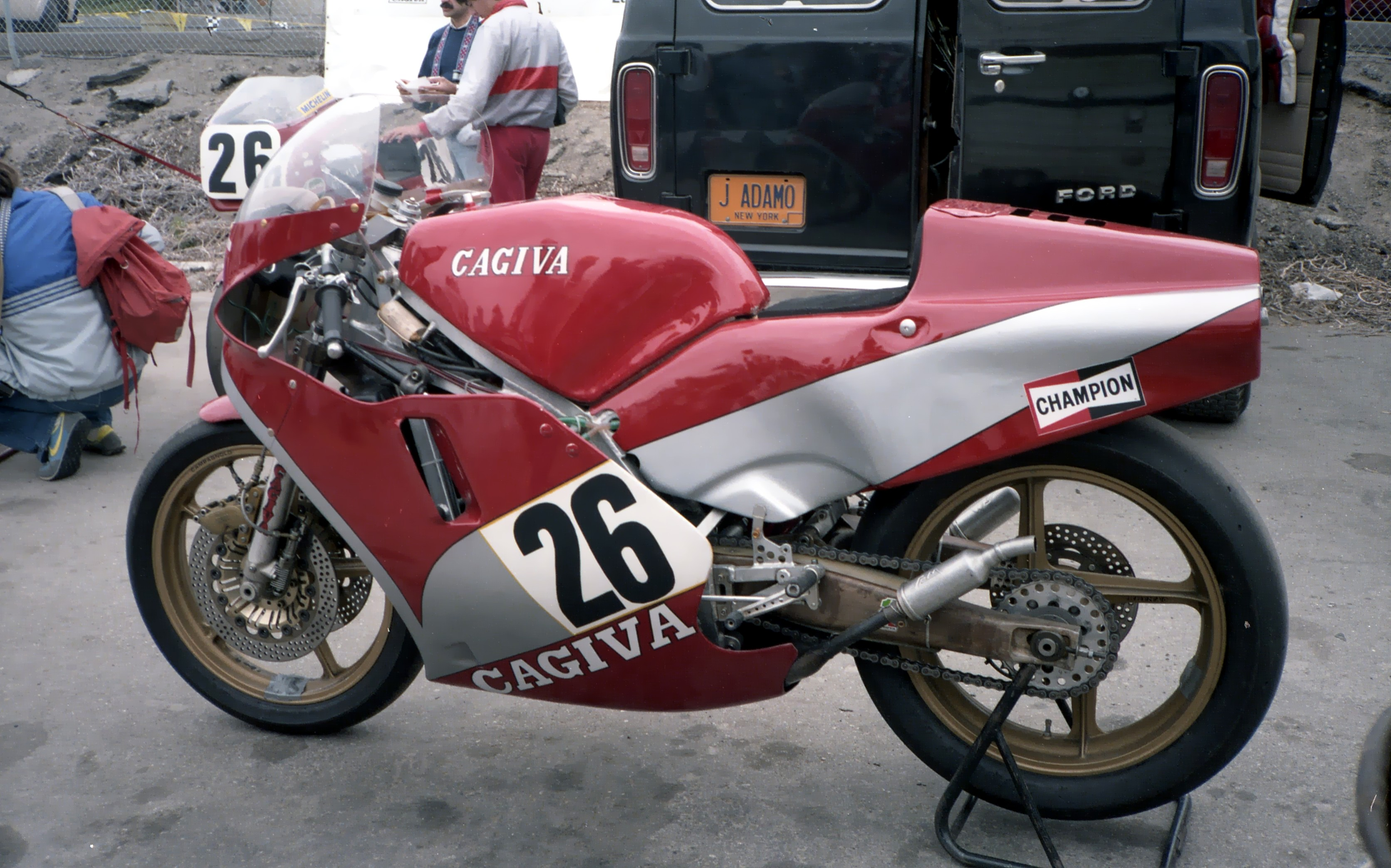 Cagiva C10 (Cagiva GP500 series) at 1985 Champion Spark Plug 200 at Laguna Seca Raceway.